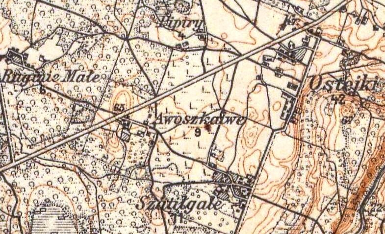 (Aukštkalviai)